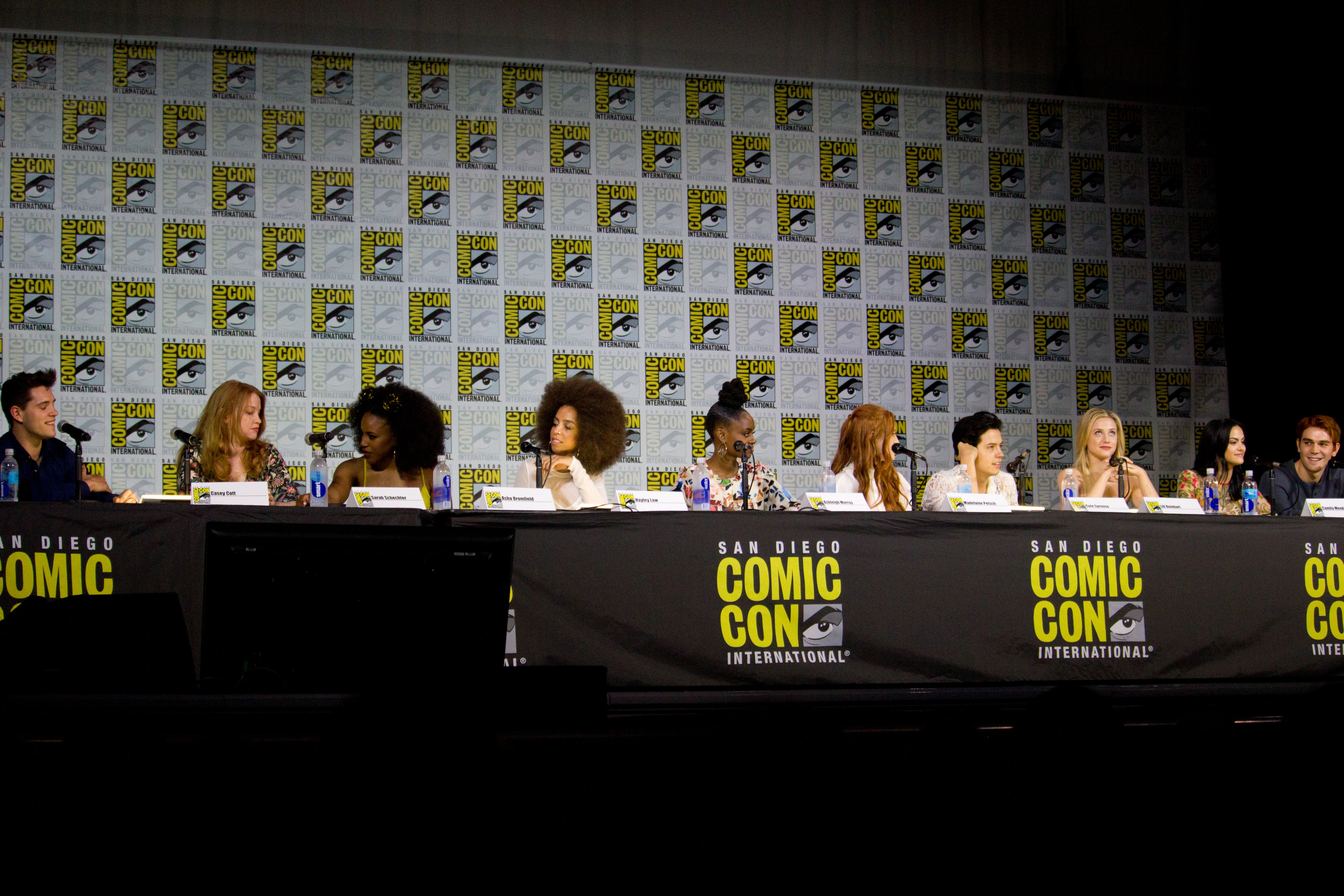 Casey Cott, Sarah Schechter, Asha Bromfield, Hayley Law, Ashleigh Murray, Madelaine Petsch, Cole Sprouse, Lili Reinhart, Camila Mendes, and KJ Apa speaking at the 2017 San Diego Comic Con International, for Riverdale, at the San Diego Convention Center in San Diego, California.